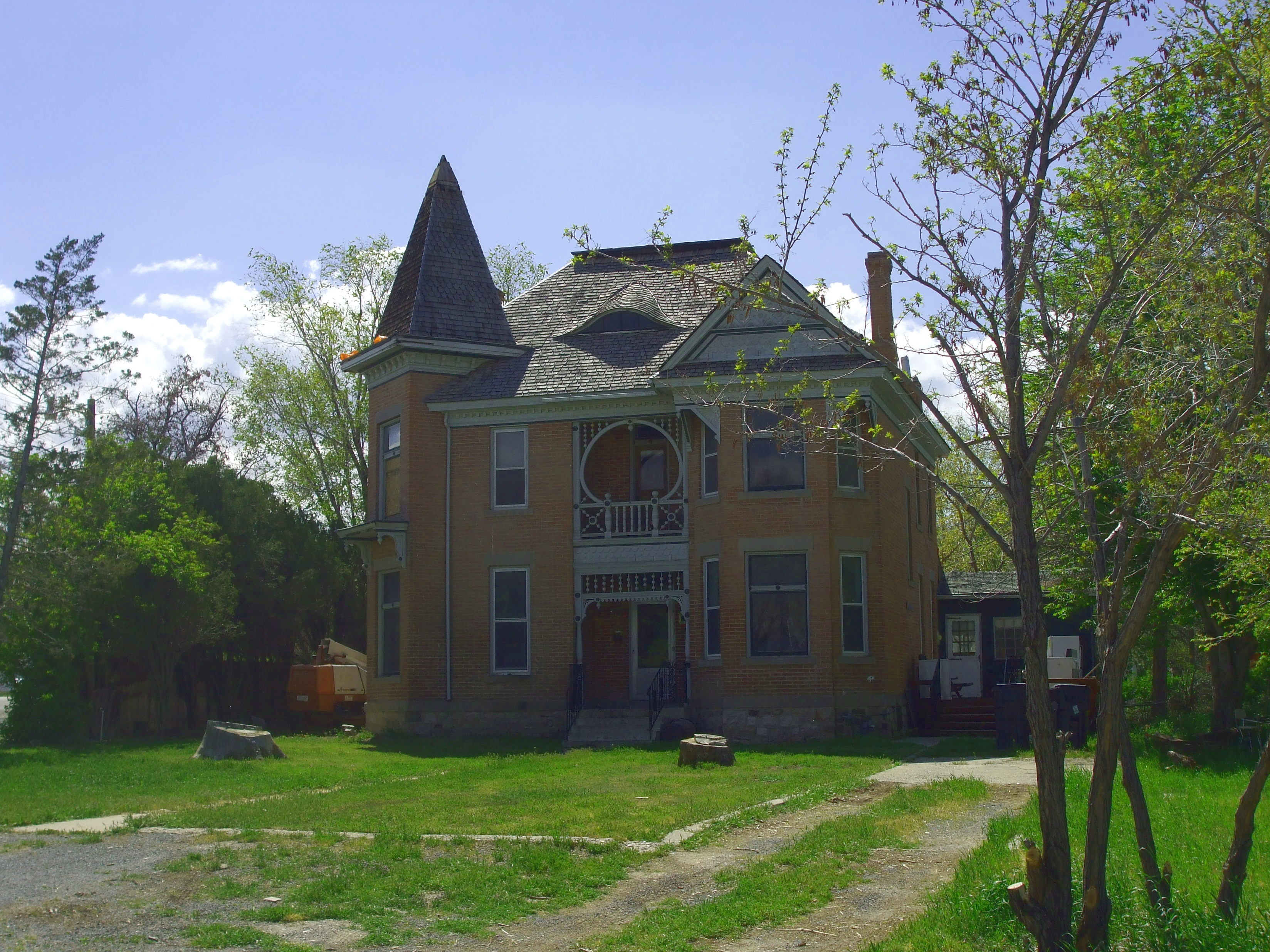 The James and Penninah Wrathall House, a historic home in Grantsville, Utah, United States.